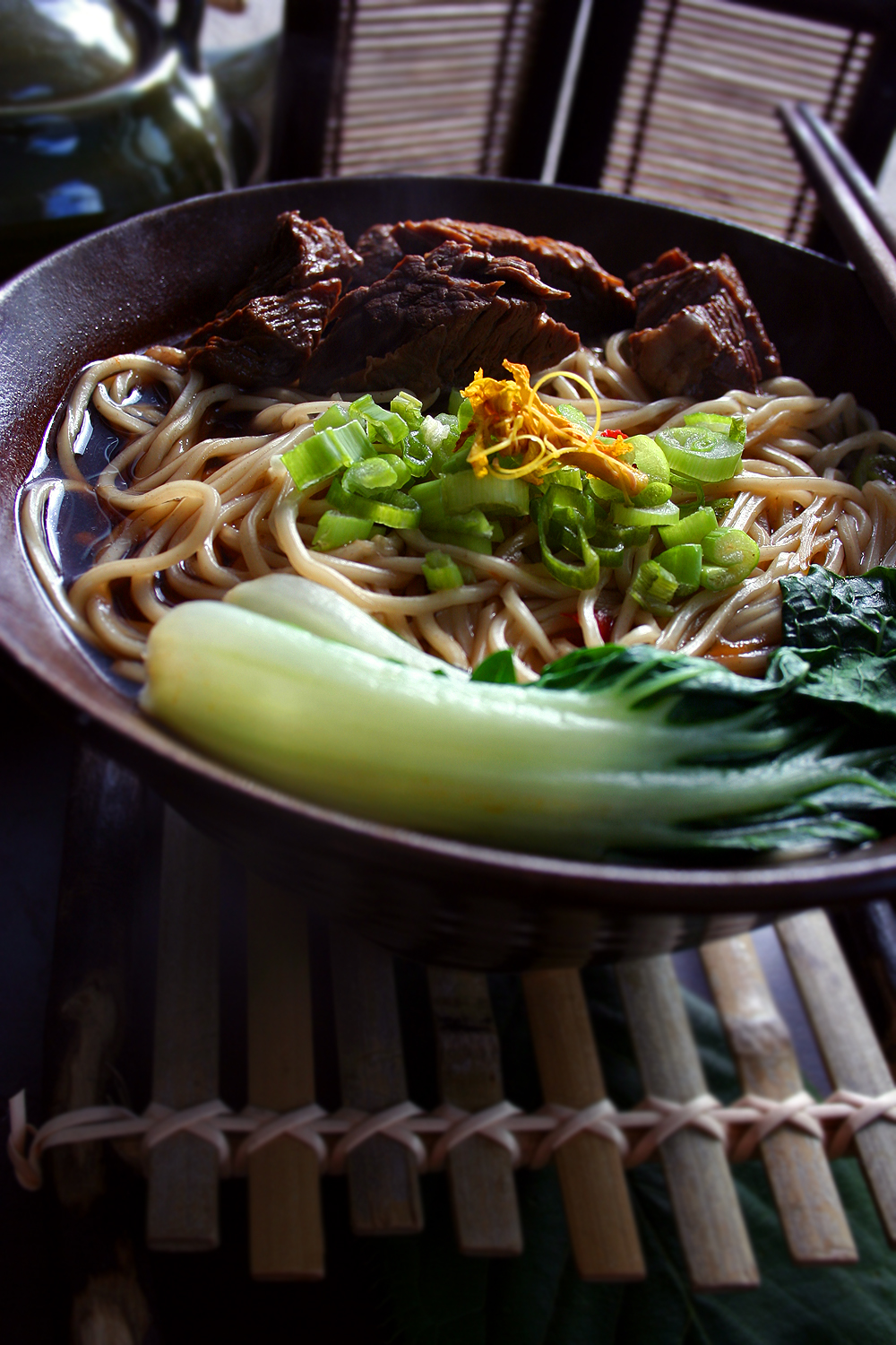 Pho-style noodle soup